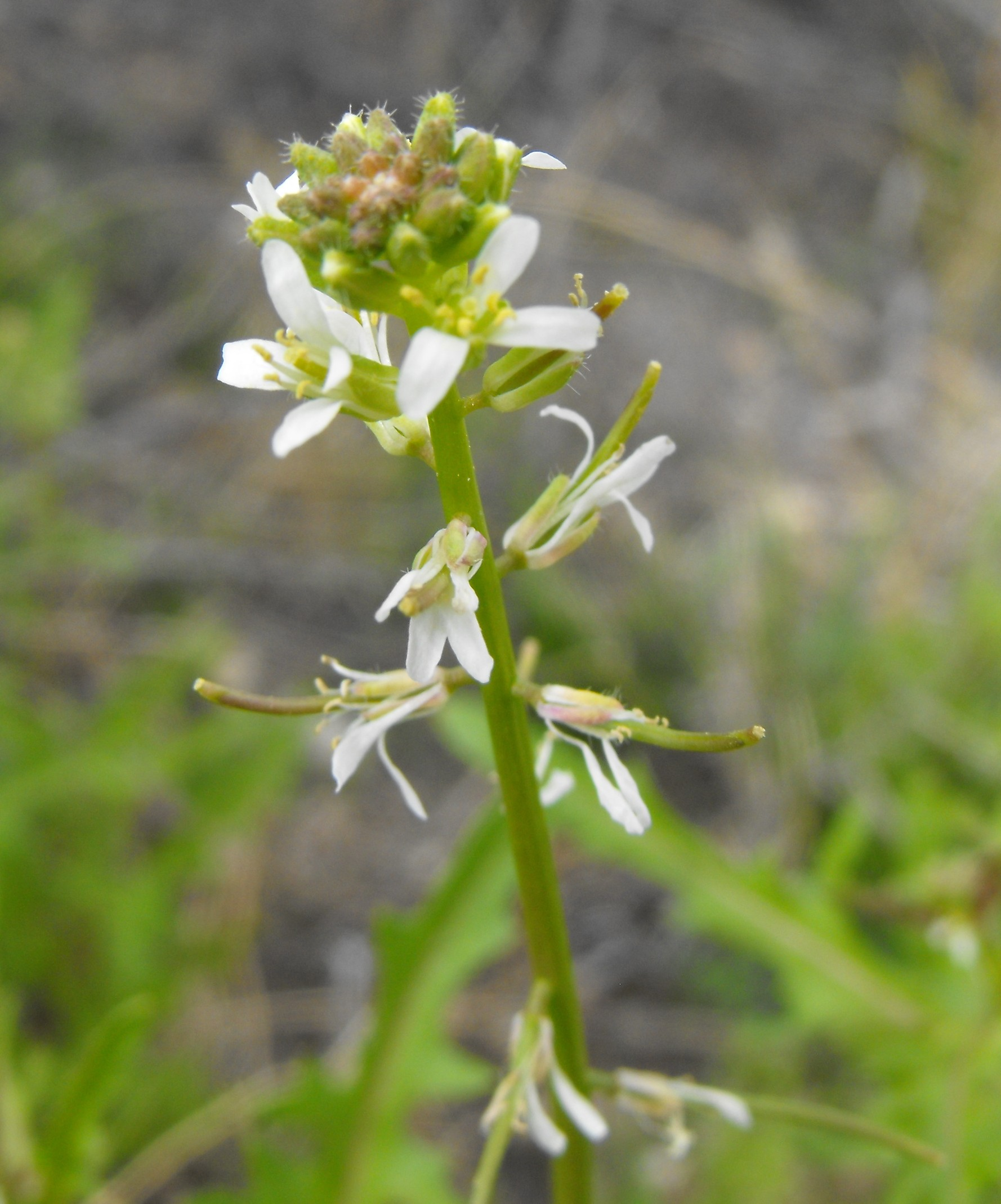 Guillenia lasiophylla in Anza Borrego Desert State Park, California, USA.